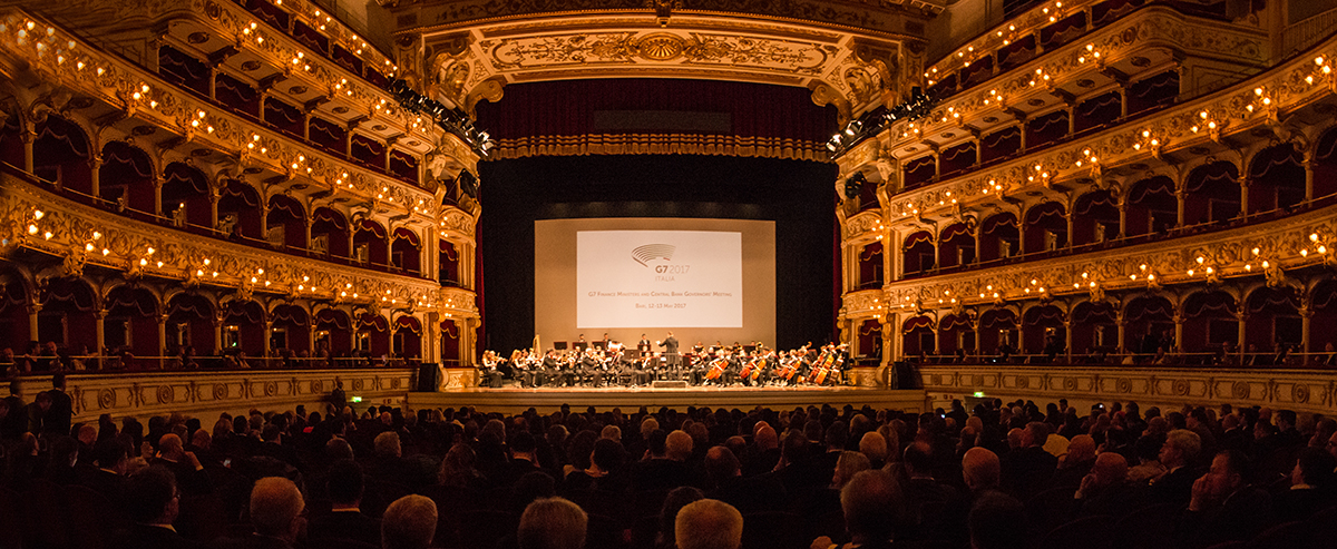 Teatro Petruzzelli during a meeting of finance ministers in Bari as part of the Italian G7 Presidency 2017